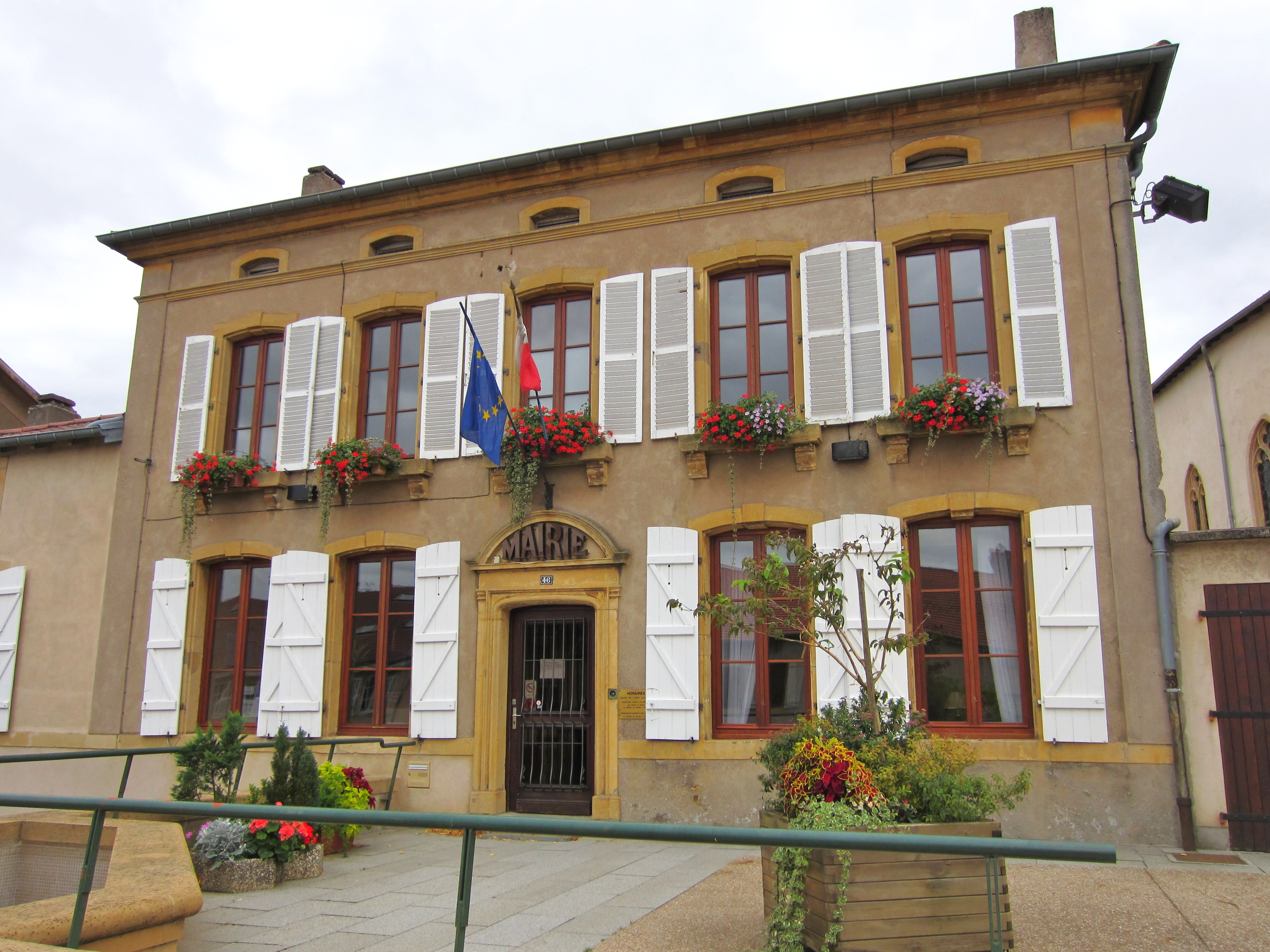 Description mairie Lorry Metz Date7 September 2011Sourcemon appareil photoAuthorAimelaimePermission(Reusing this file) mairie Lorry Metz